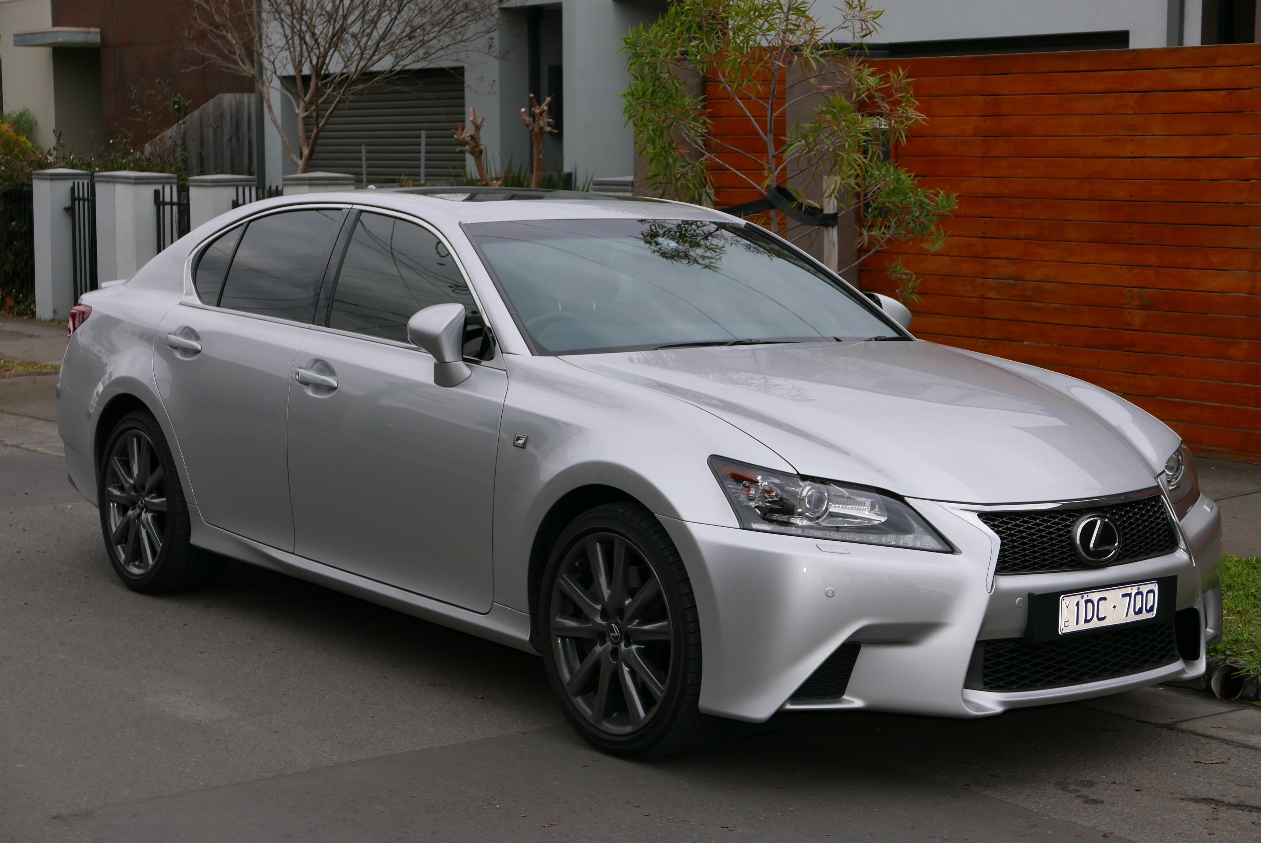 2013 Lexus GS 250 (GRL11R) F Sport sedan. Photographed in Alphington, Victoria, Australia. Vehicle registration enquiry resultsJurisdictionVictoriaRegistration1DC7QQChassis codeJTHBF1BL705008814Engine code4GR0917765Compliance date2013-07Year of manufacture2013